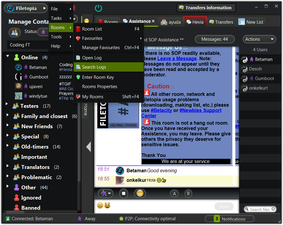 Logo menu in action